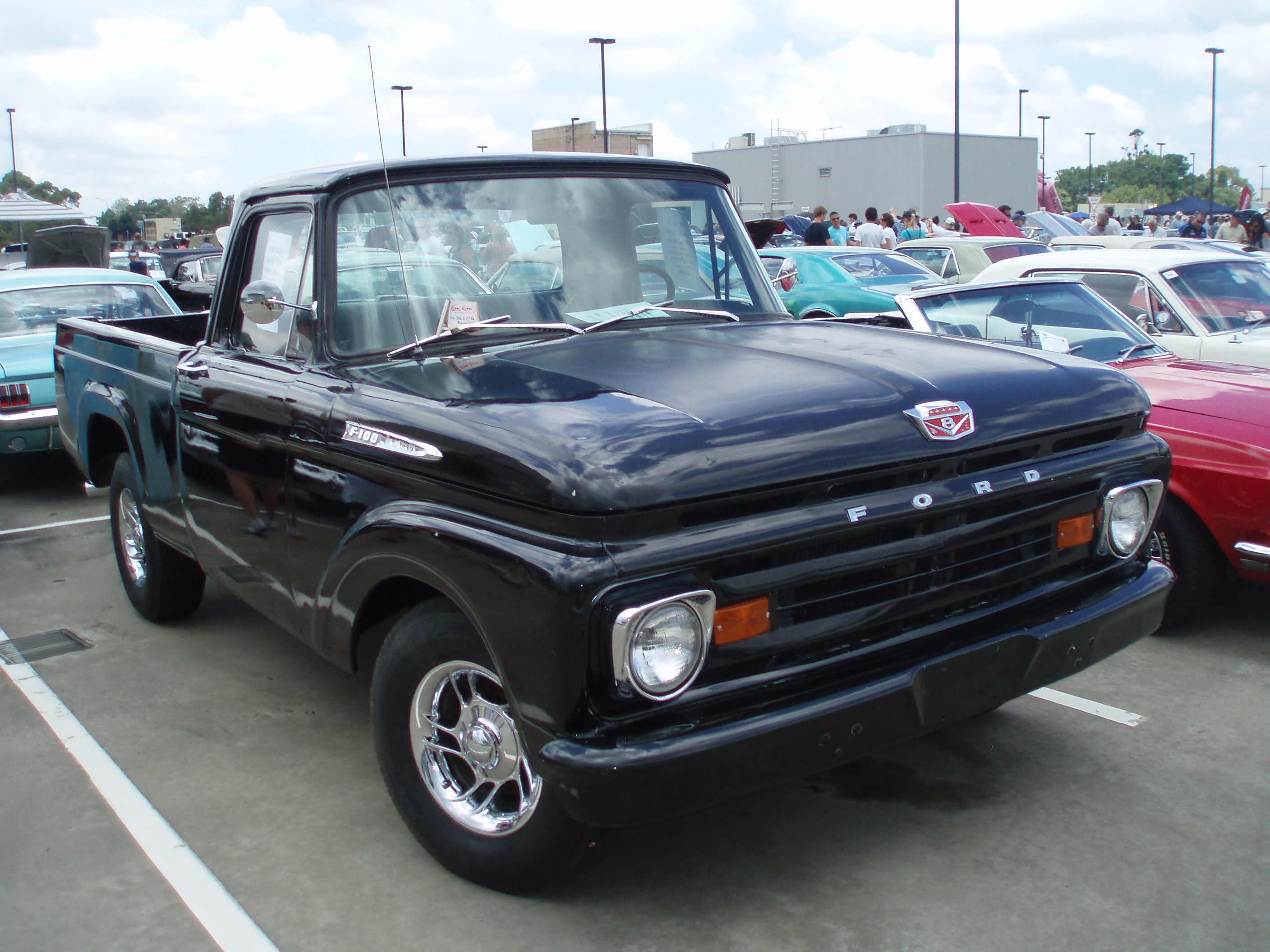 1961 Ford F-100 pick up. Taken at the 2011 New South Wales All American Day, held at Castle Towers Shopping Centre, Castle Hill, Sydney.